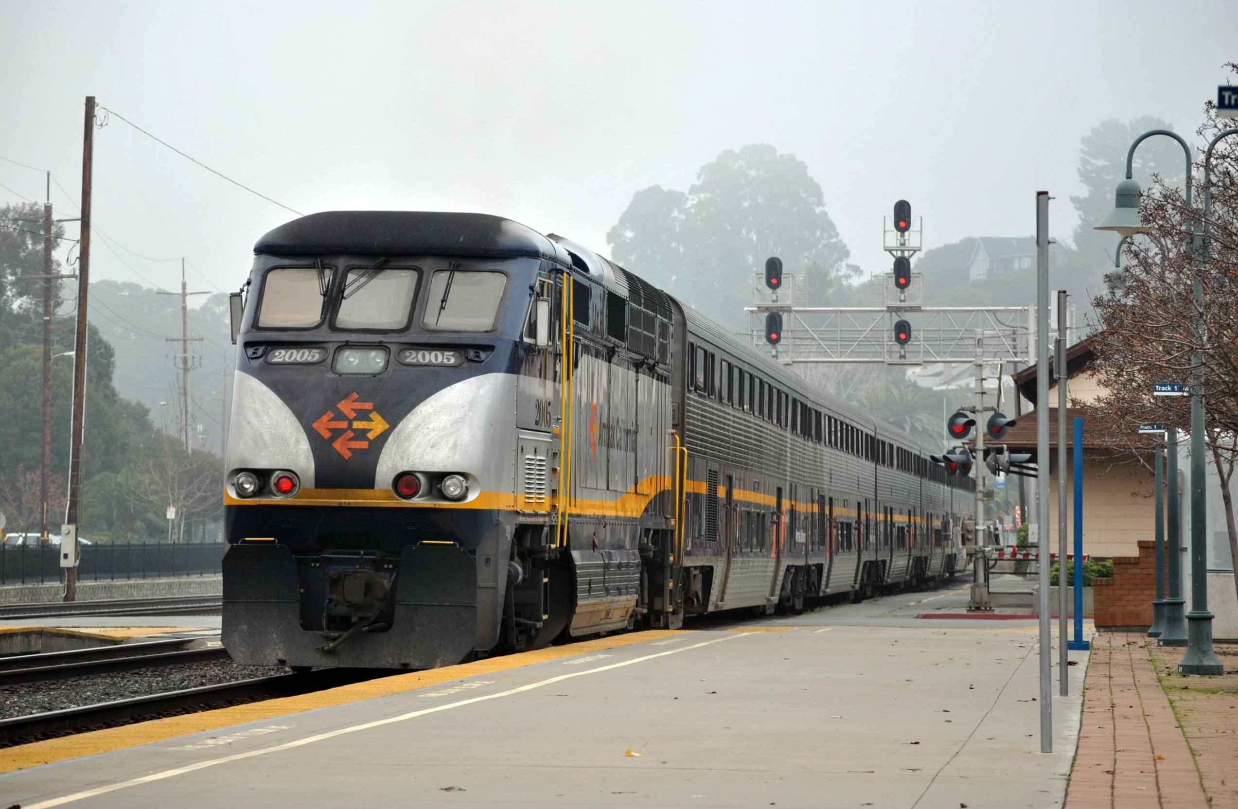 Southbound Capitol Corridor #737 at Martinez in December 2010